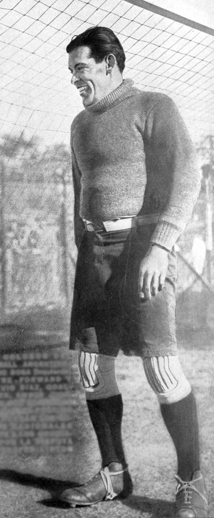 Argentinian goalkeeper Octavio Juan Díaz